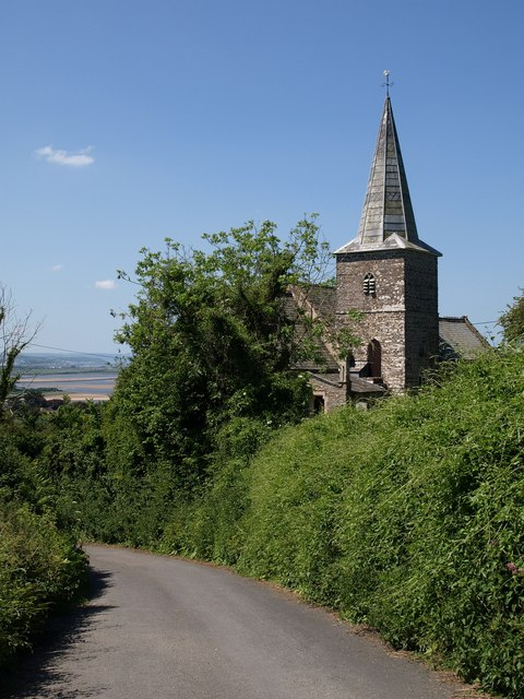 St Peter's church, Ashford, Devon, seen from the east from Adder Lane. An inscription says the northeast tower was built in 1798. The remainder of the church was rebuilt in 1854.